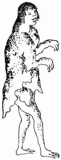 Kaijin (海人, japanese merman) from the Kanda-Jihitsu (閑田次筆)